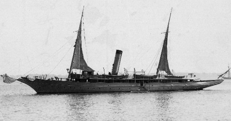 USS Vixen (PY-4)From U.S. Navy public domainPhoto #: NR&L(O) 605Photographed in 1898, with sails hoisted on both masts.Note three-masted schooner in the right distance.U.S. Naval Historical Center Photograph.